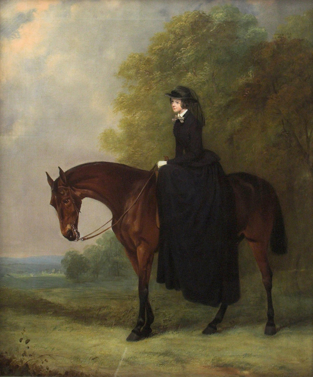 Marianne Brocklehurst, at age 21